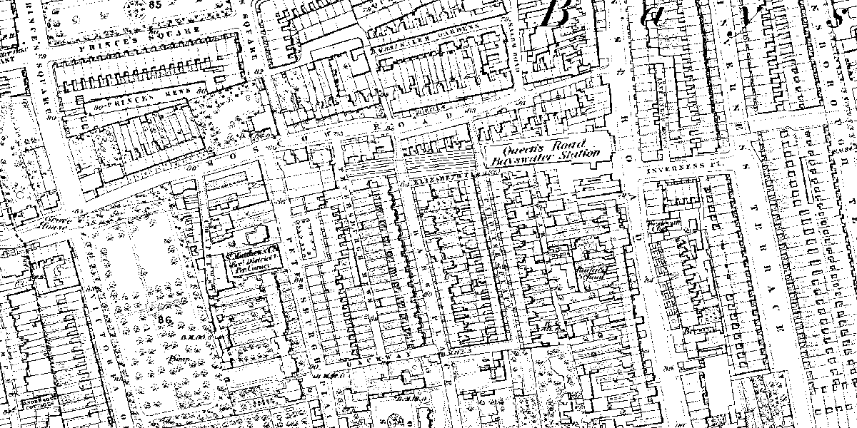 1st Epoch Ordnance Survey Map of Bayswater station, London.